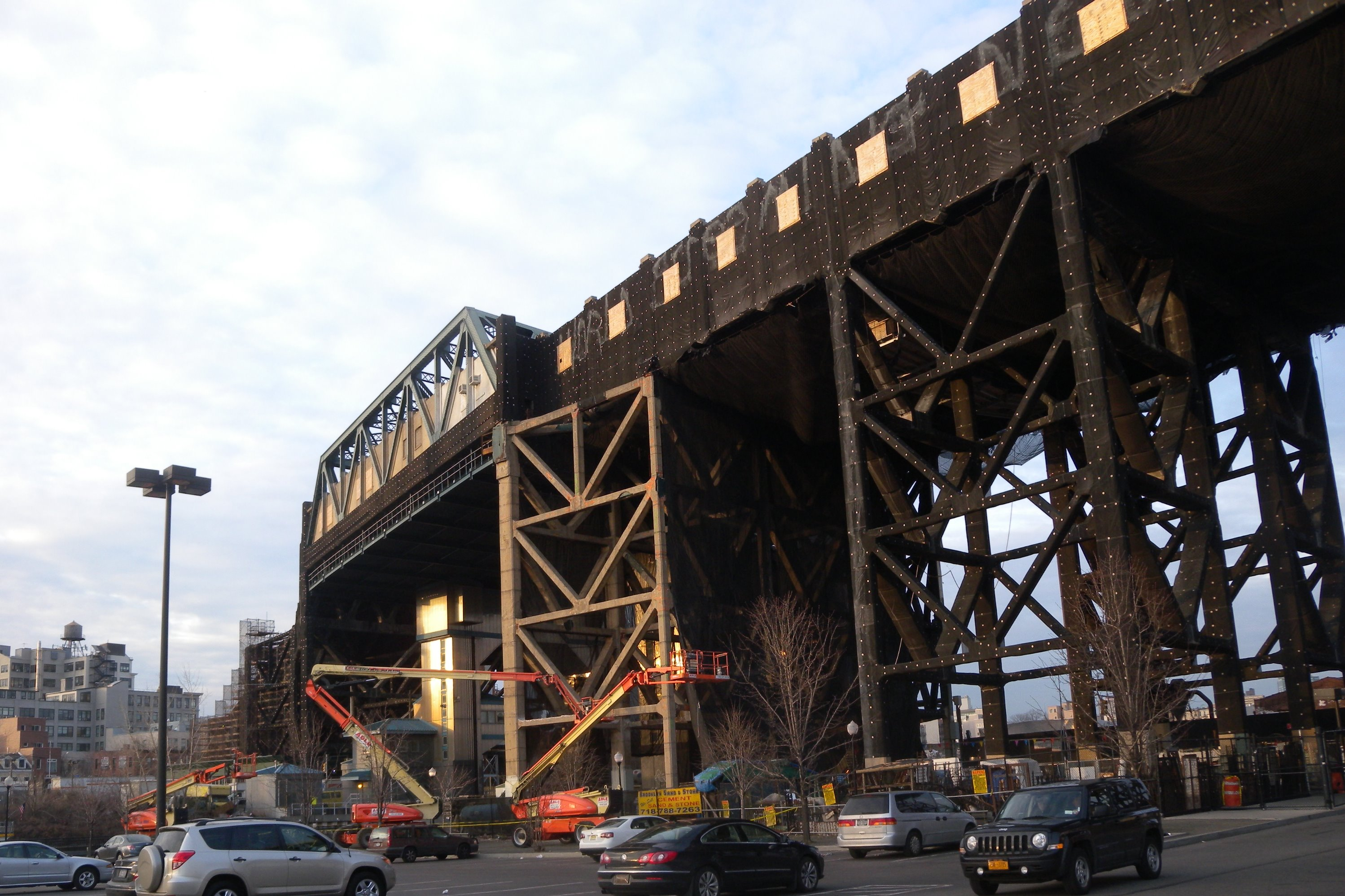 Looking northwest at subway station late on a mostly cloudy afternoon.